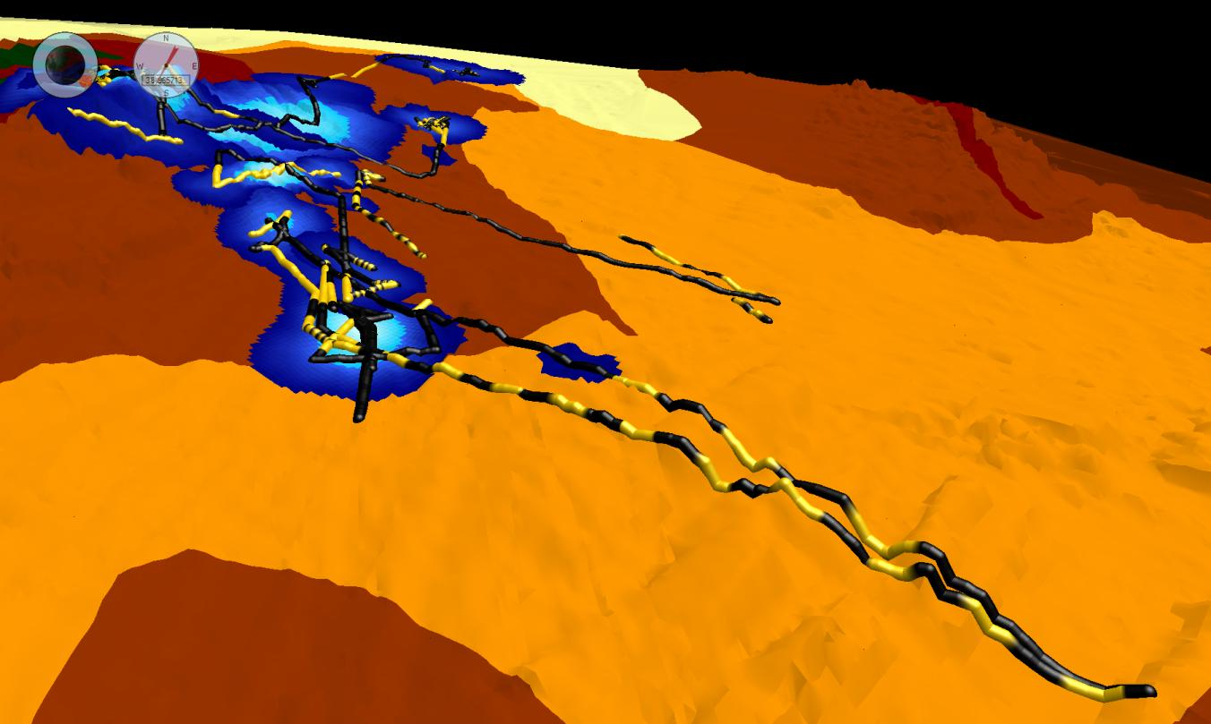 Screen capture of rock lobster tracks overlaid on bathymetry and habitat data from a region of the Tasman Sea generated using Eonfusion software from Myriax Pty. Ltd.